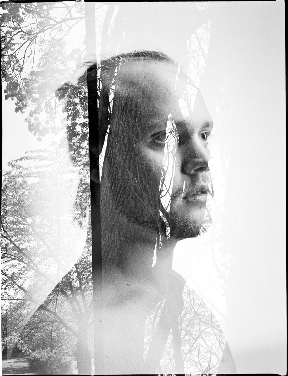 Double exposured Portrait of a young man and nature.